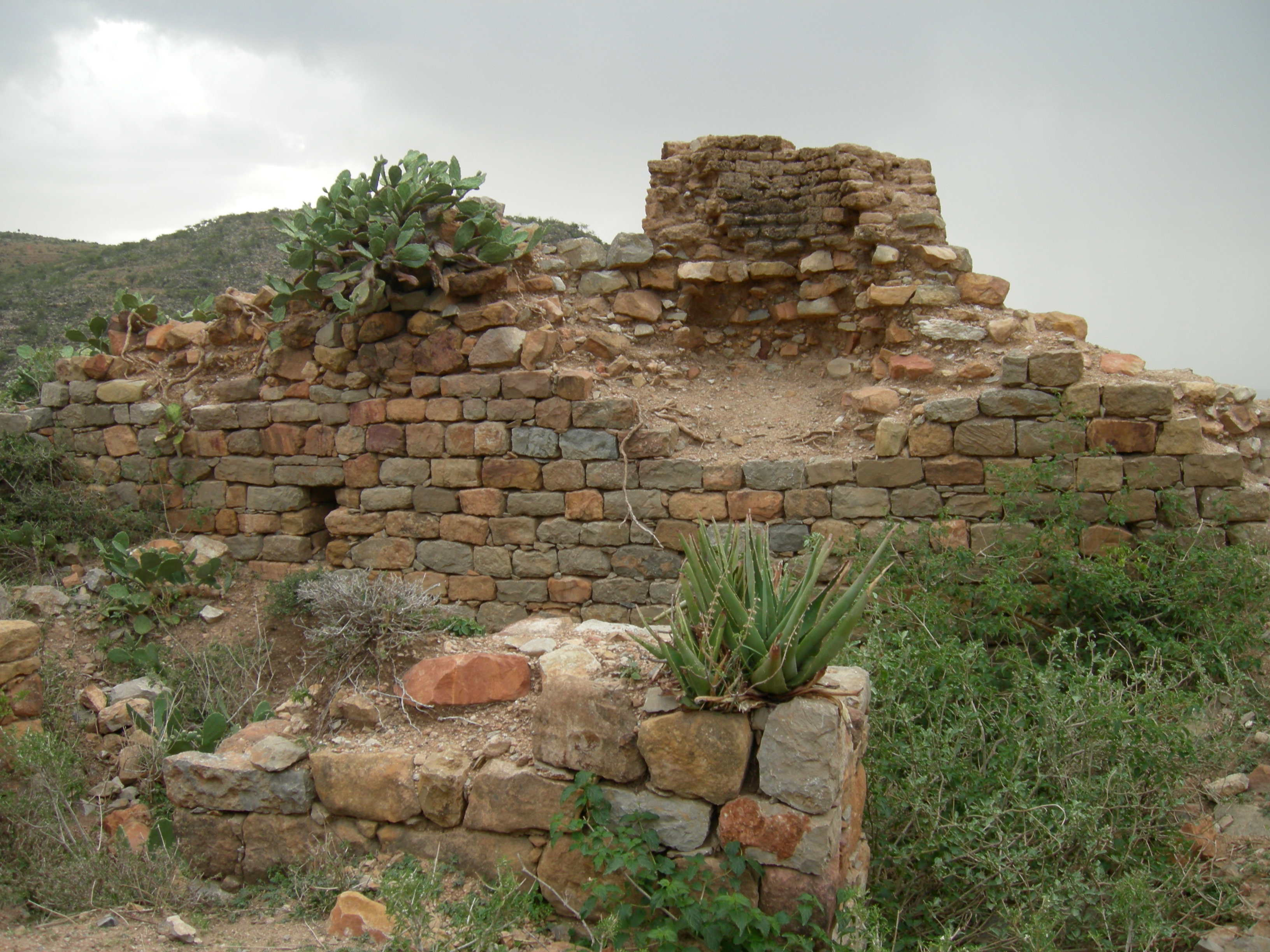 Ancient town in Hararghe region